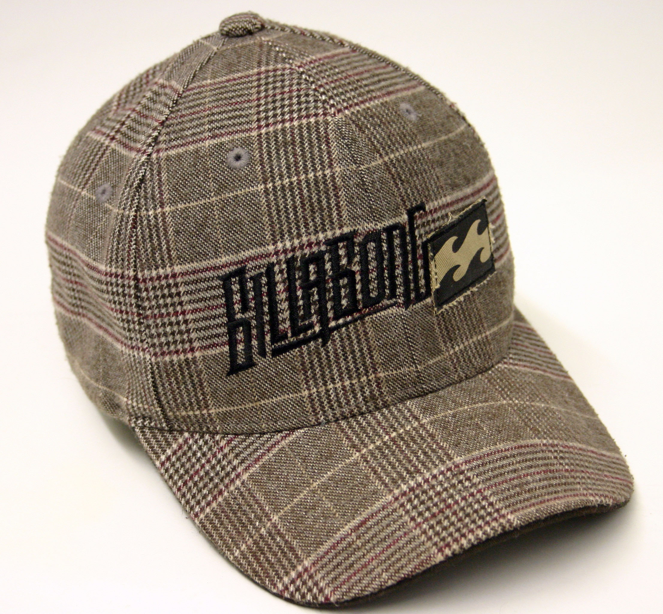 Plaid billabong baseball hat